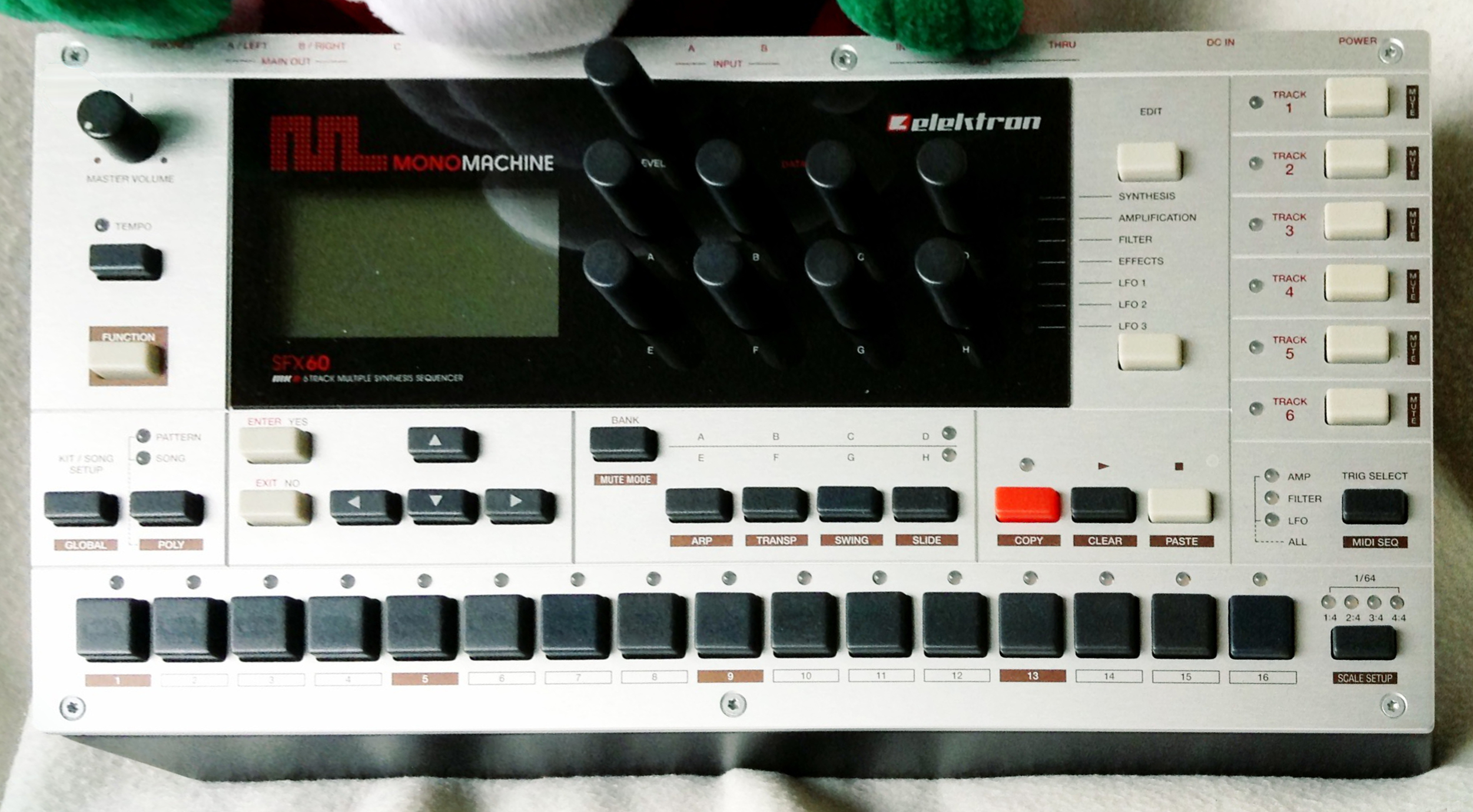 Elektron Monomachine (2003 released) Original description Elektron monomachine with Santa